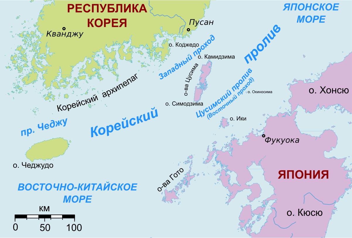 Russian map of the Korea Strait; created using Generic Mapping Tools